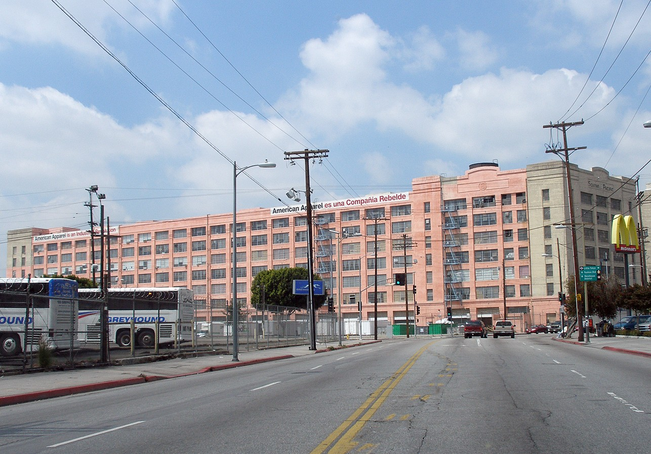 The headquarters and main factory of American Apparel in Los Angeles, California.